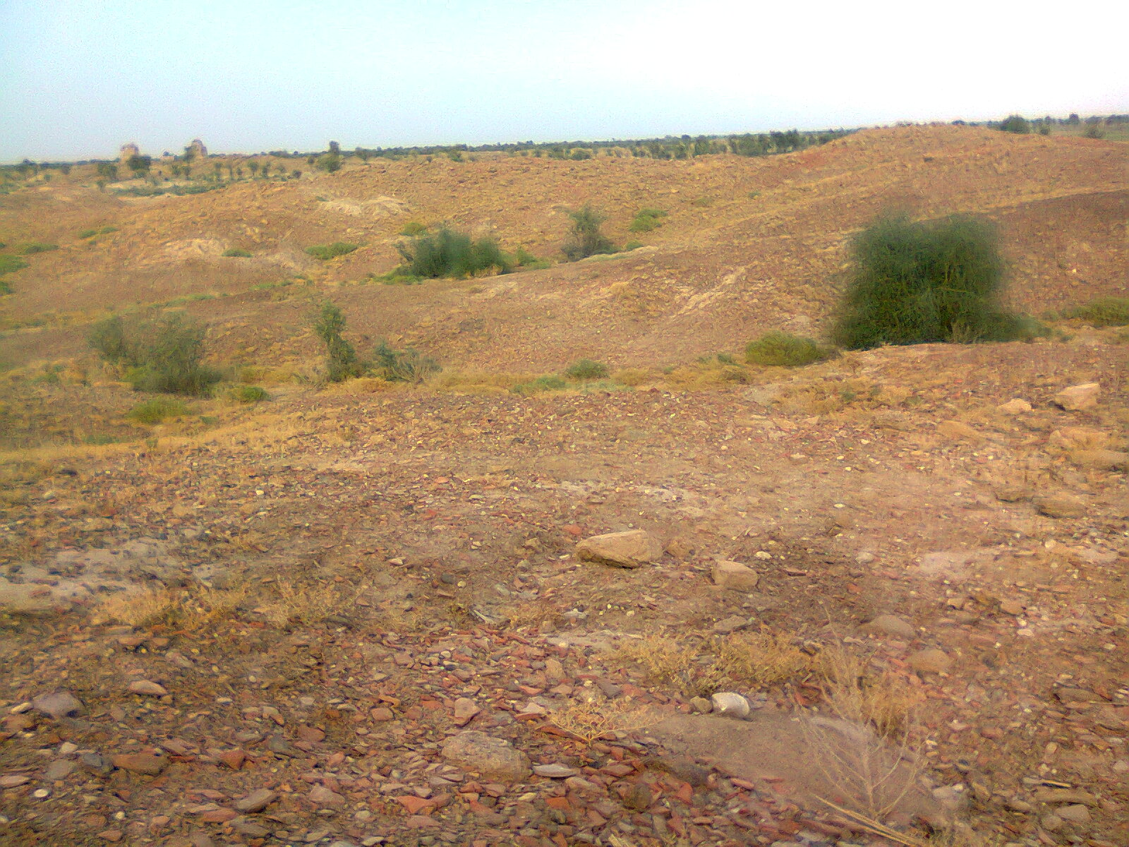 Ali Murad village mounds